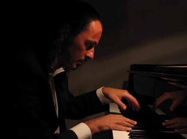 Cosimo Damiano Lanza